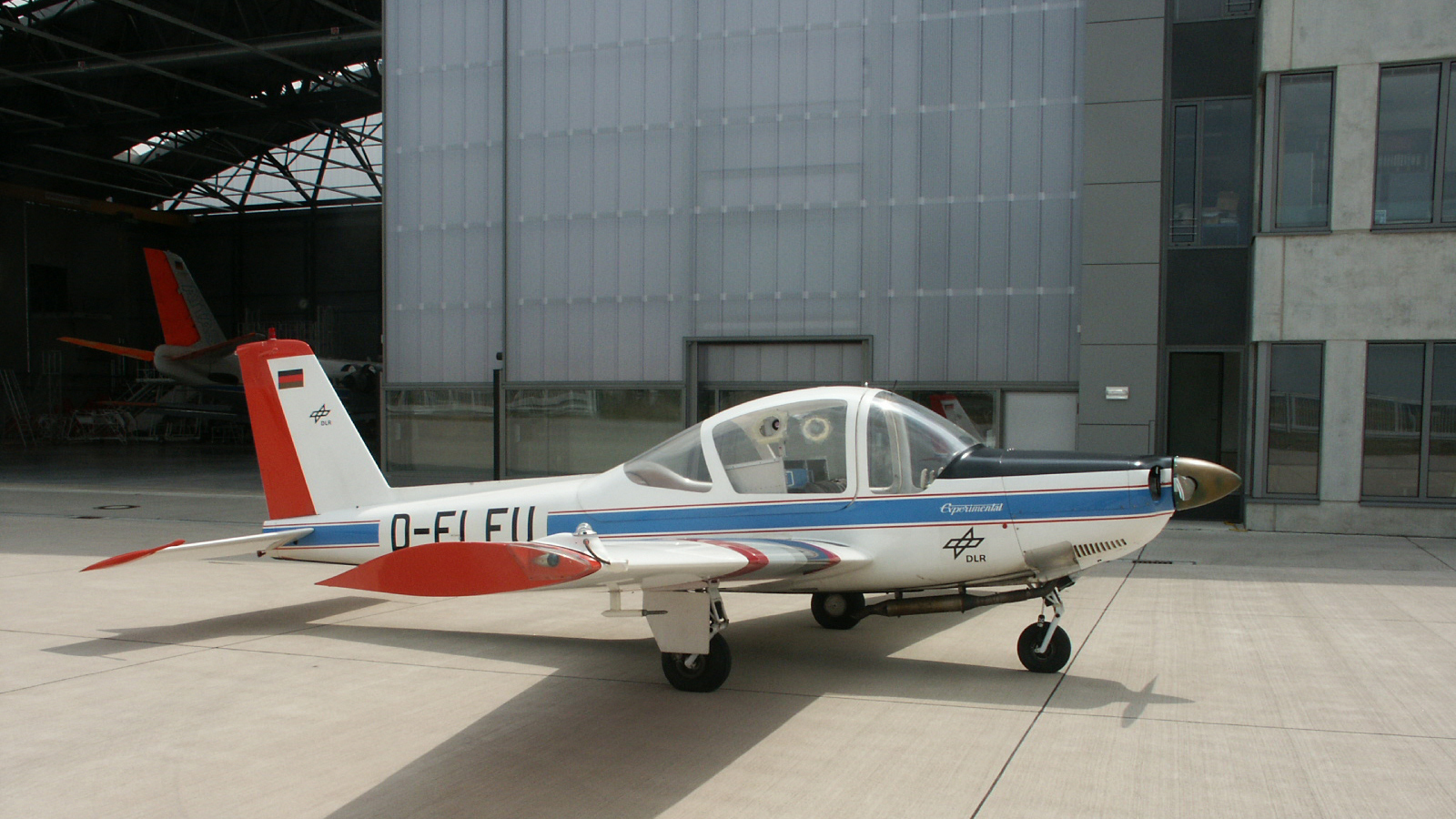 The LFU 205 experimental aircraft on the ground.